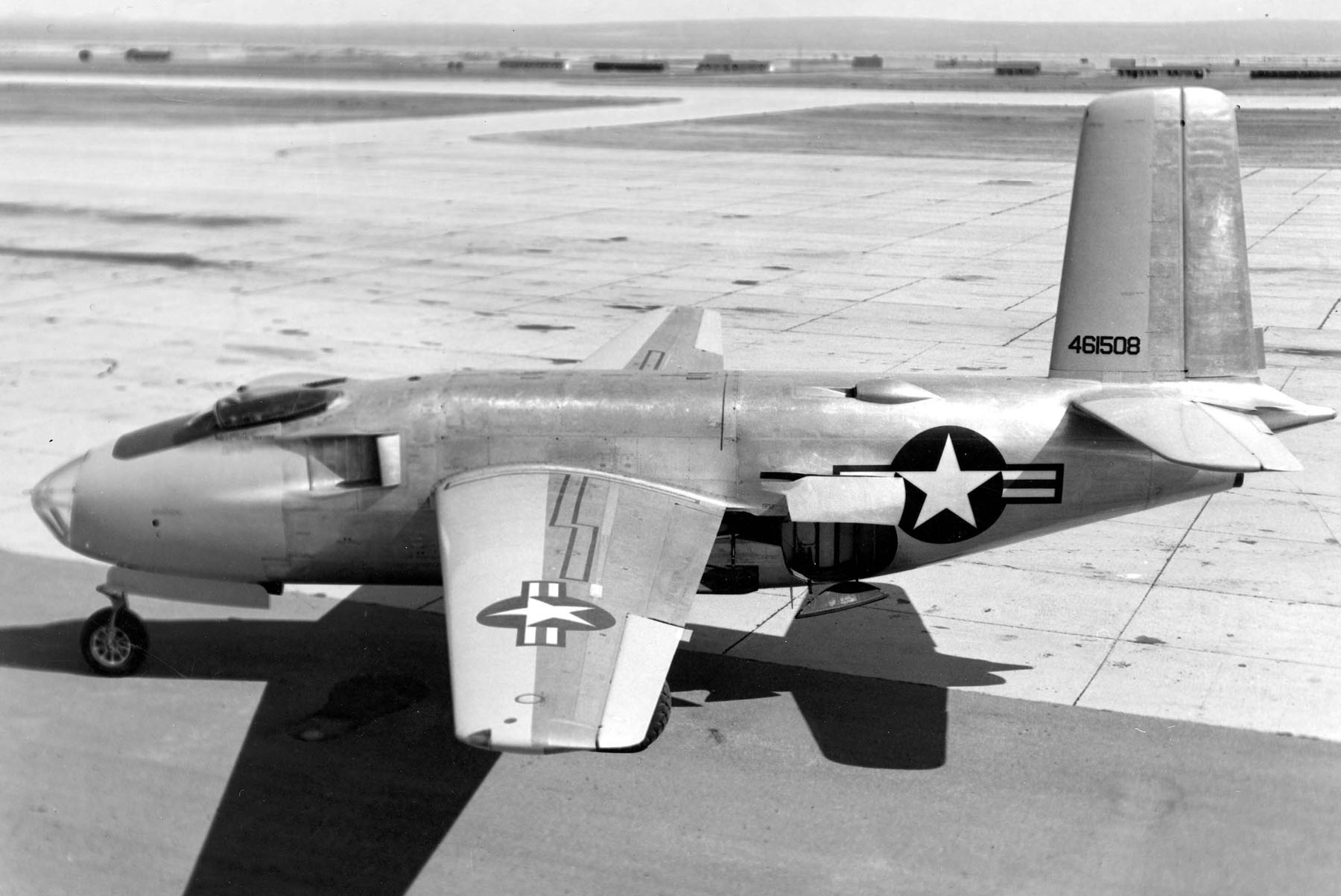 Douglas XB-43